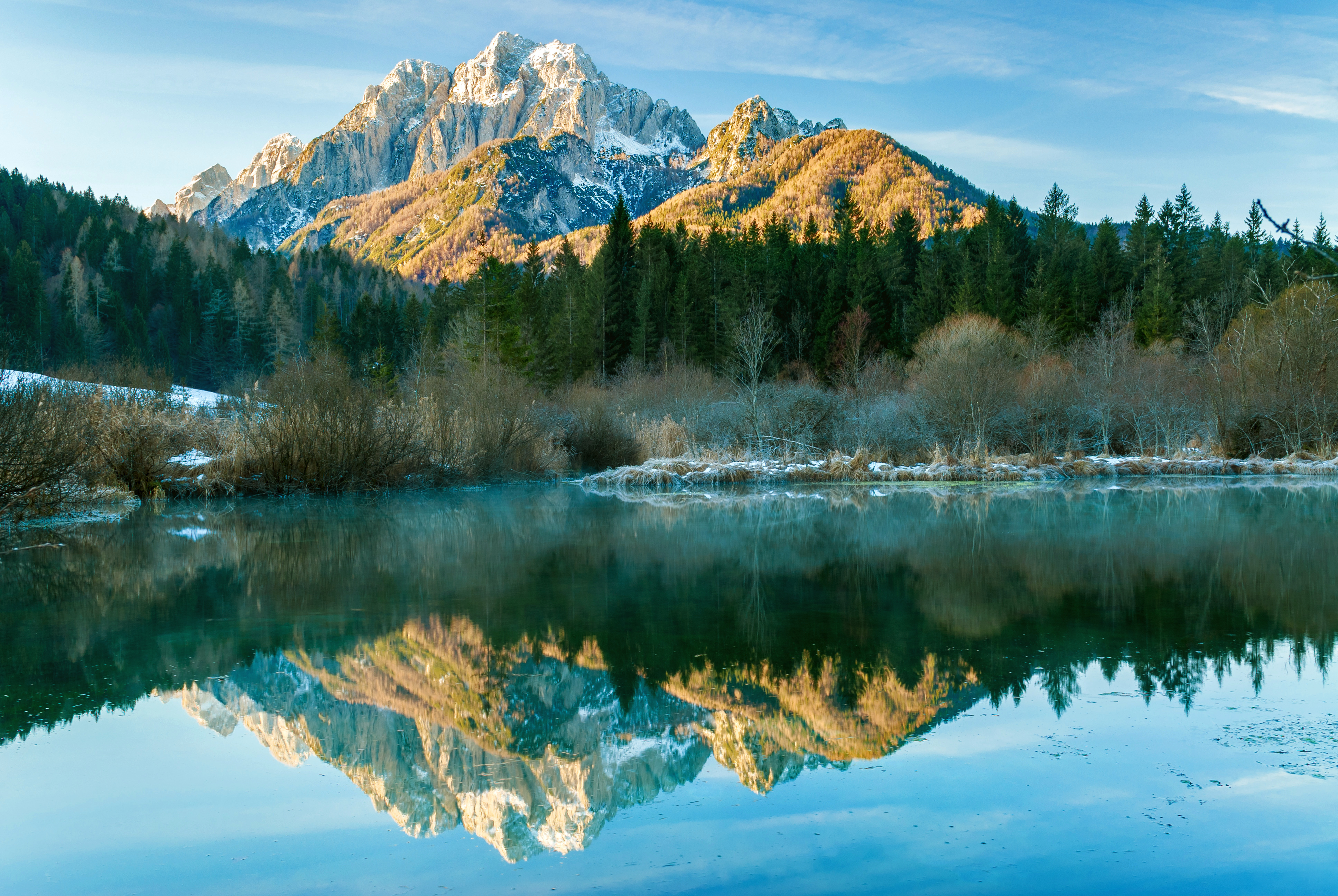 Zelenci, Sava Dolinka Spring in winter